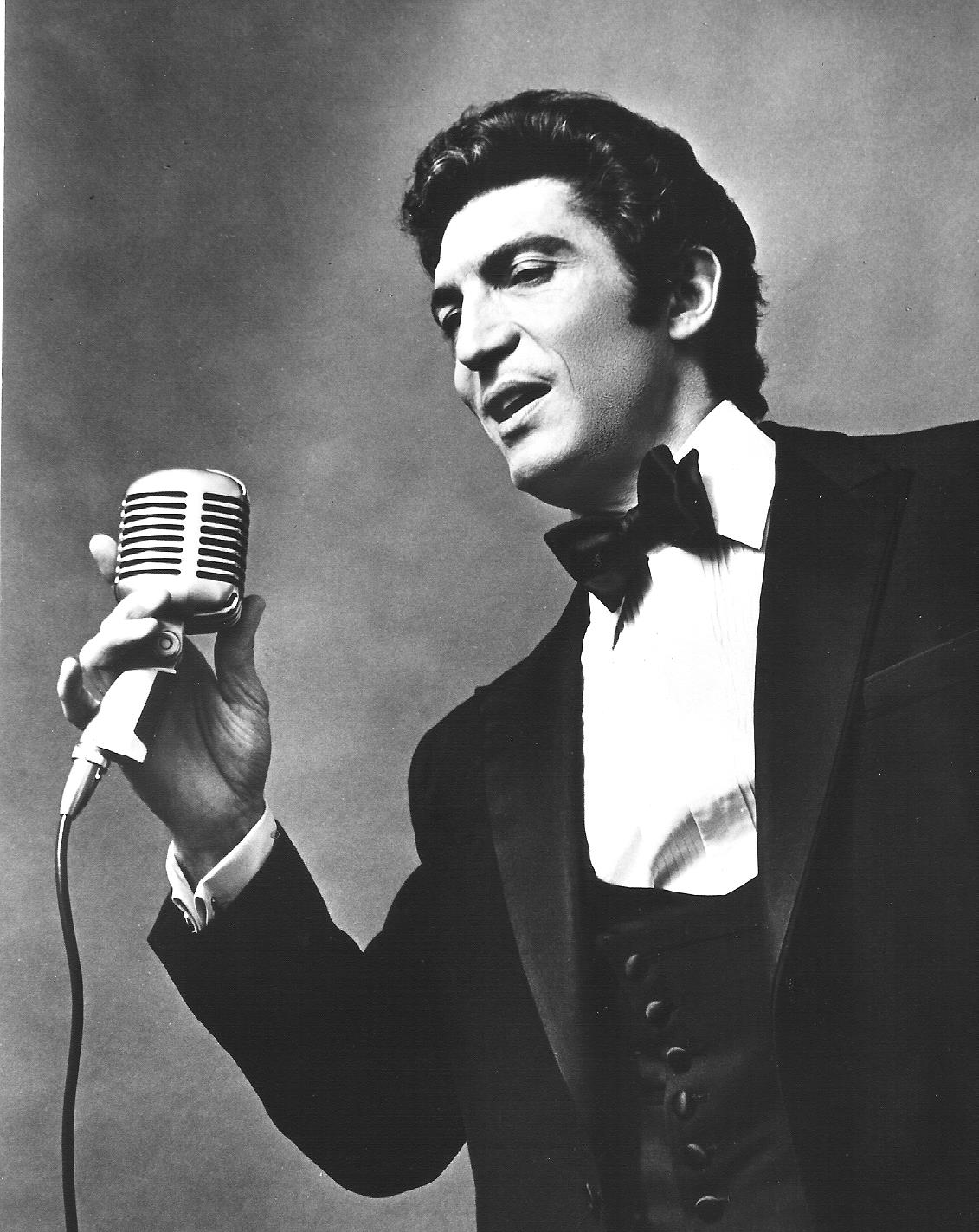 cropped version of United Artists Records publicity photo @ 1970